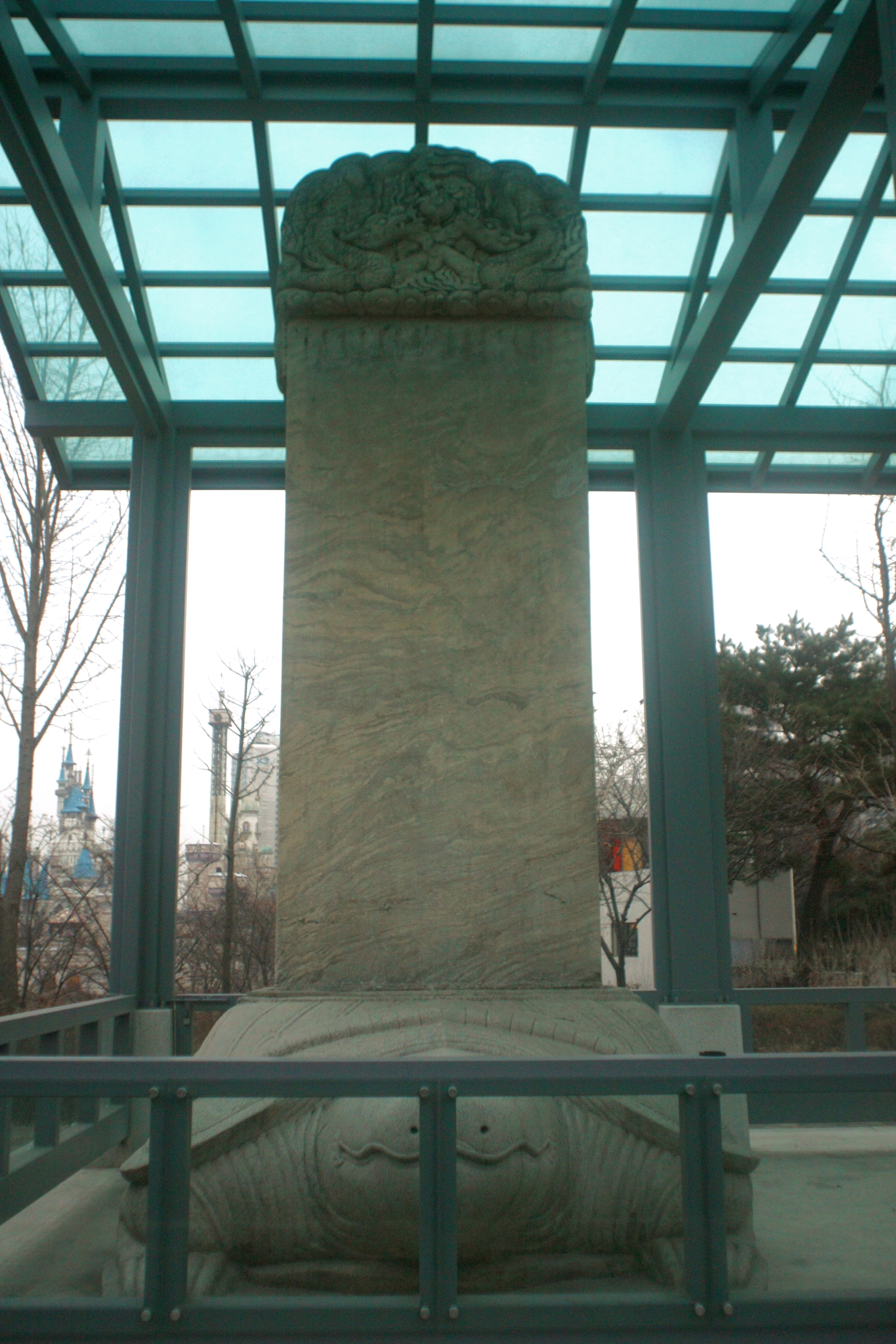 Samjeondo Monument